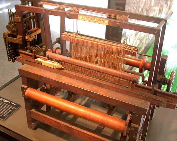 S. Thomas patent model for loom — in the Visitor's Center of Lowell National Historical Park, in Lowell, Massachusetts. (taken Sept. 20, 2004) © 2004 Matthew Trump